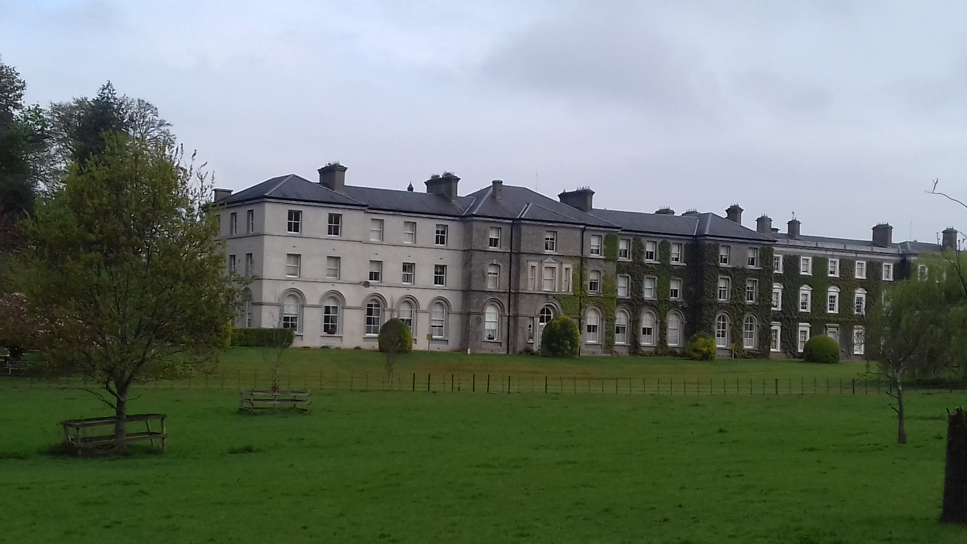 Southern facade of the Vincentian's fee-paying secondary school - Castleknock College. Viewed from the Carpenterstown Road opposite Knockmaroon farm.